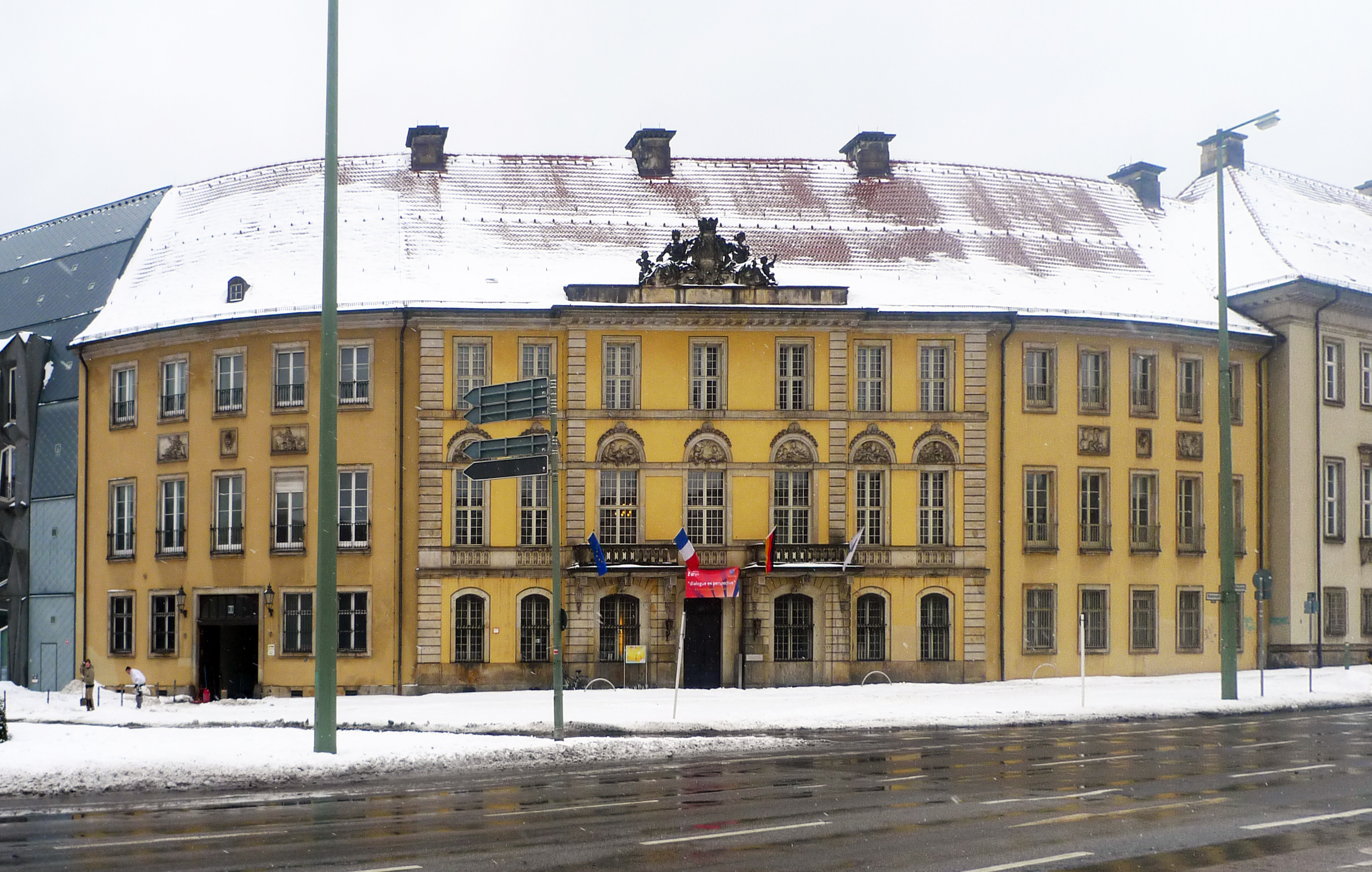 The Schwerin-Palace at Molkenmarket, Berlin